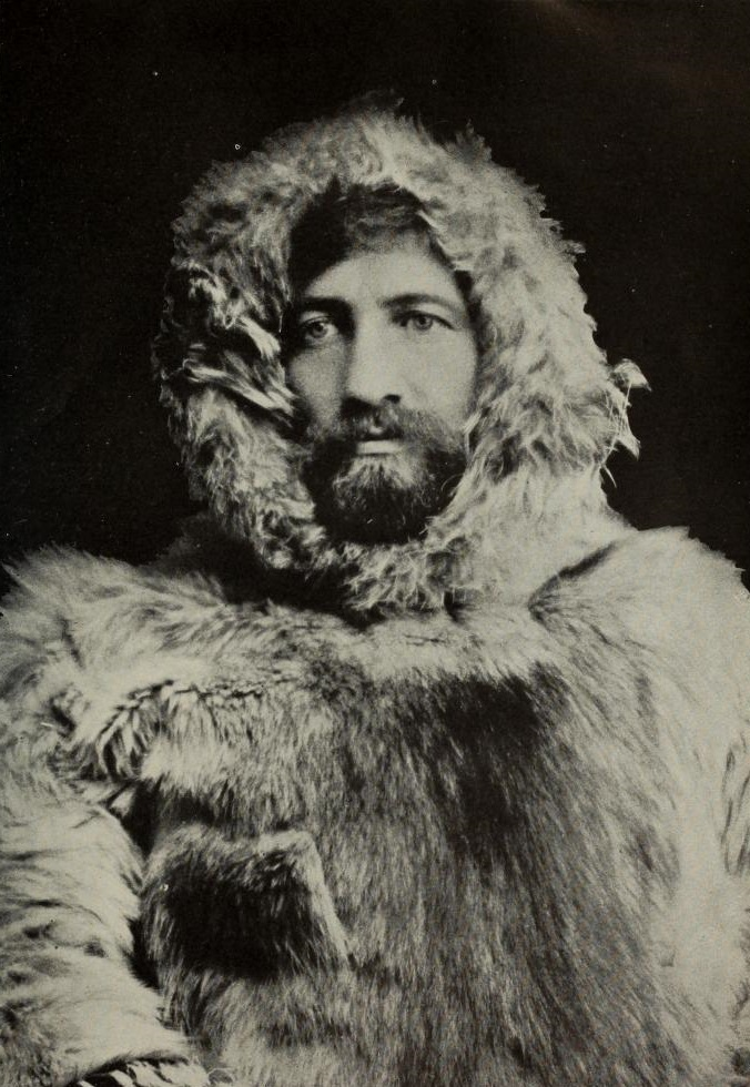 Picture of Frederick Cook